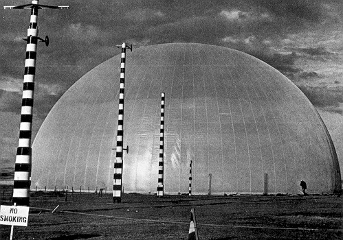 125 foot propane-oxygen hemisphere is prepared for detonation at Drowning Ford Test Range, Suffield Experimental Station, Alberta as Event 2A of Operation Distant Plain. The striped poles carry instrumentation equipment and a human figure can be seen in the lower right.